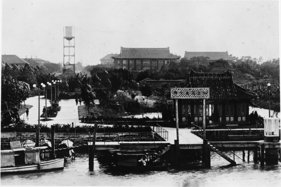 Wharf of the Lingnan University in Canton, China.